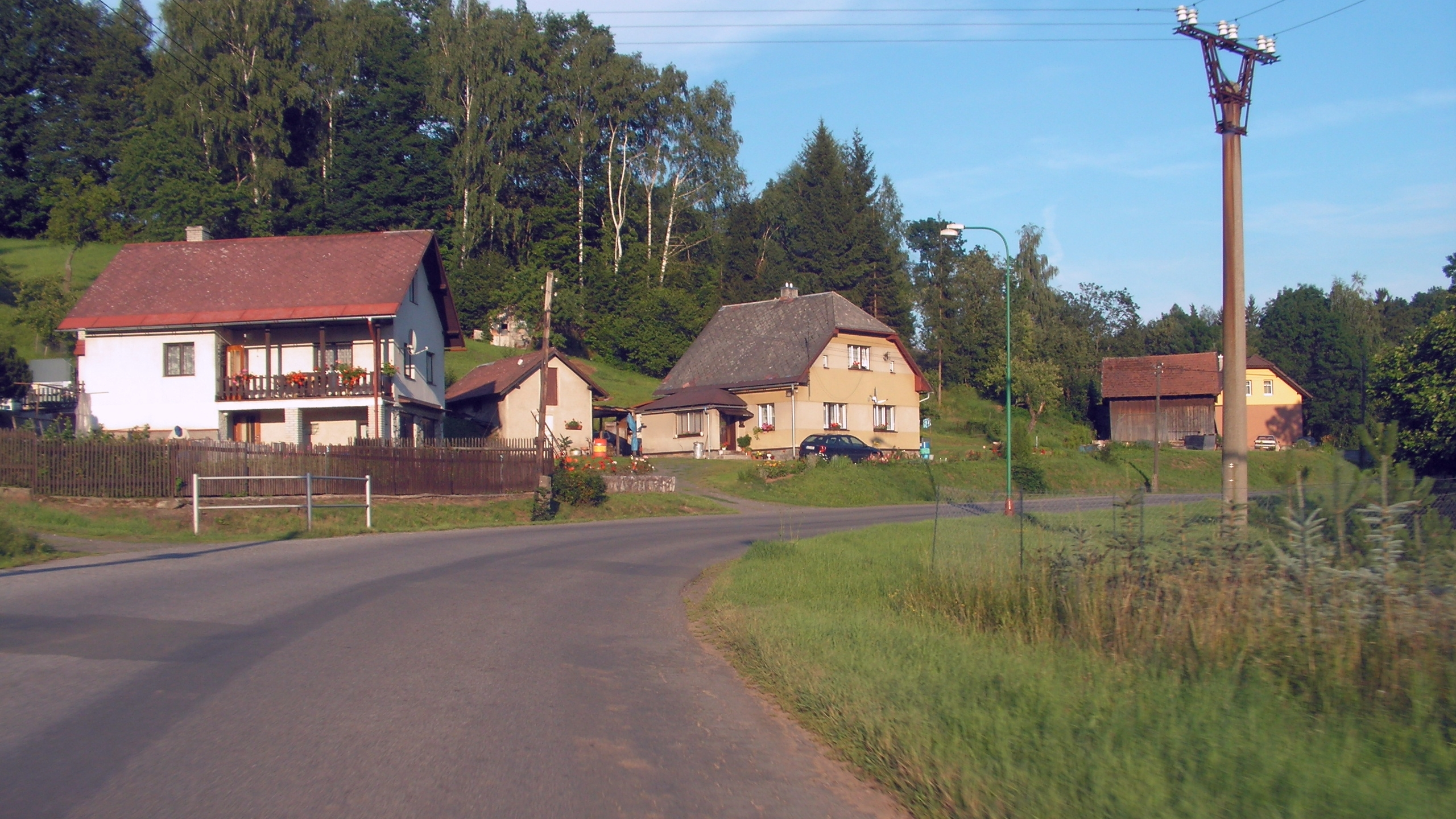 Kundratice (part of Košťálov) - middle of village